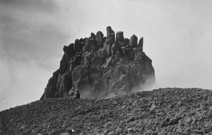 The top of the Sinabung volcano